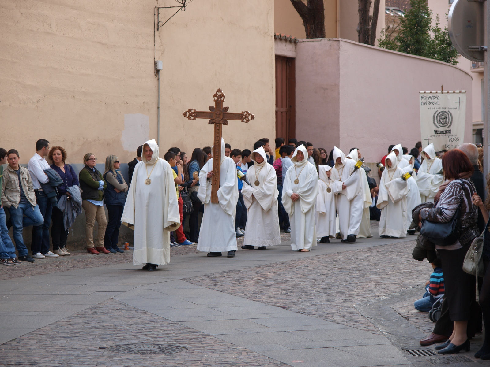 Procession of the religious brotherhood Hermandad Penitencial de Nuestro Señor Jesús, Luz y Vida, Zamora (Spain), Holy Week 2012